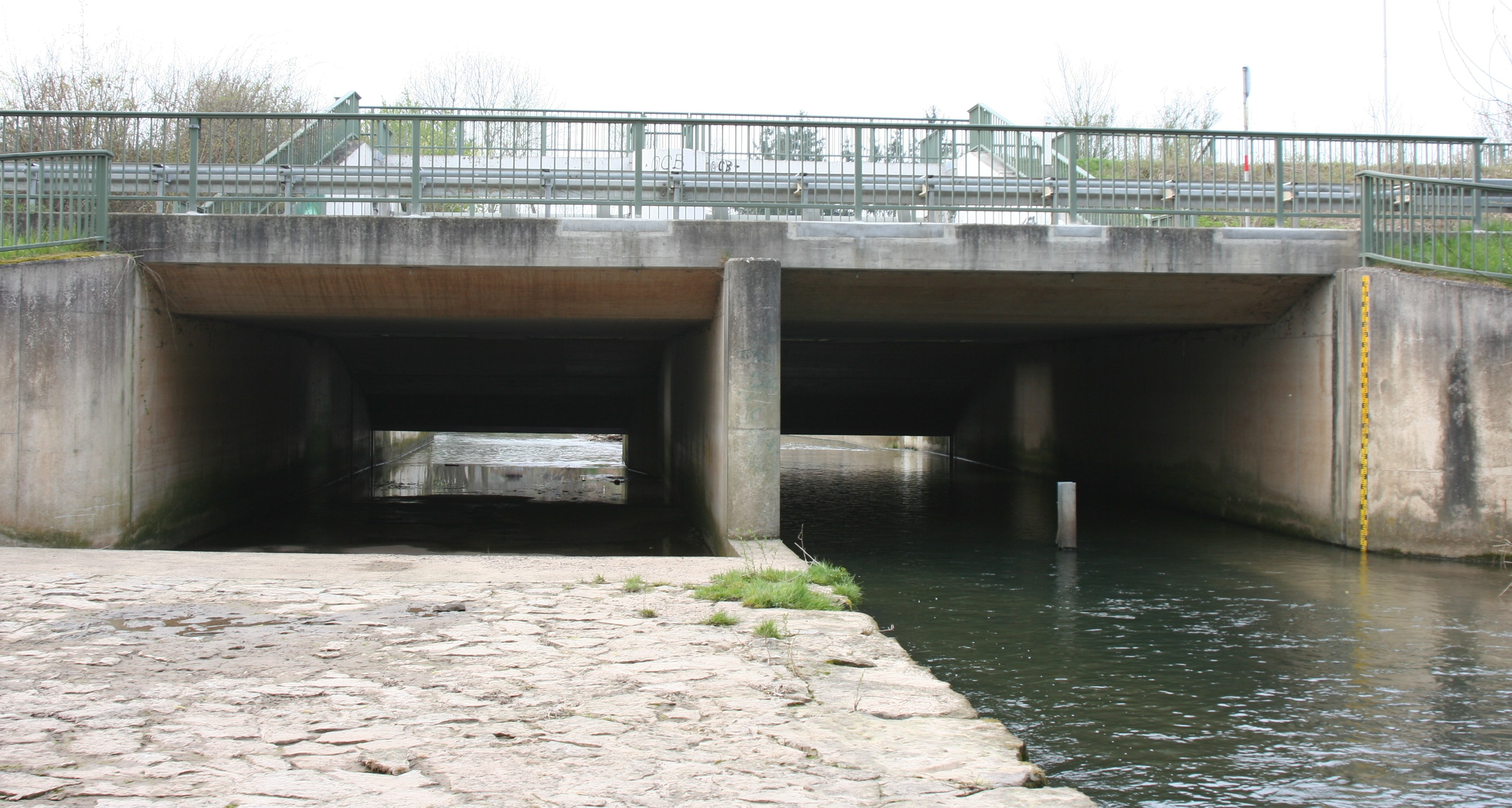 Construction for retaining water in case of flooding at the Sulm river near Erlenbach.